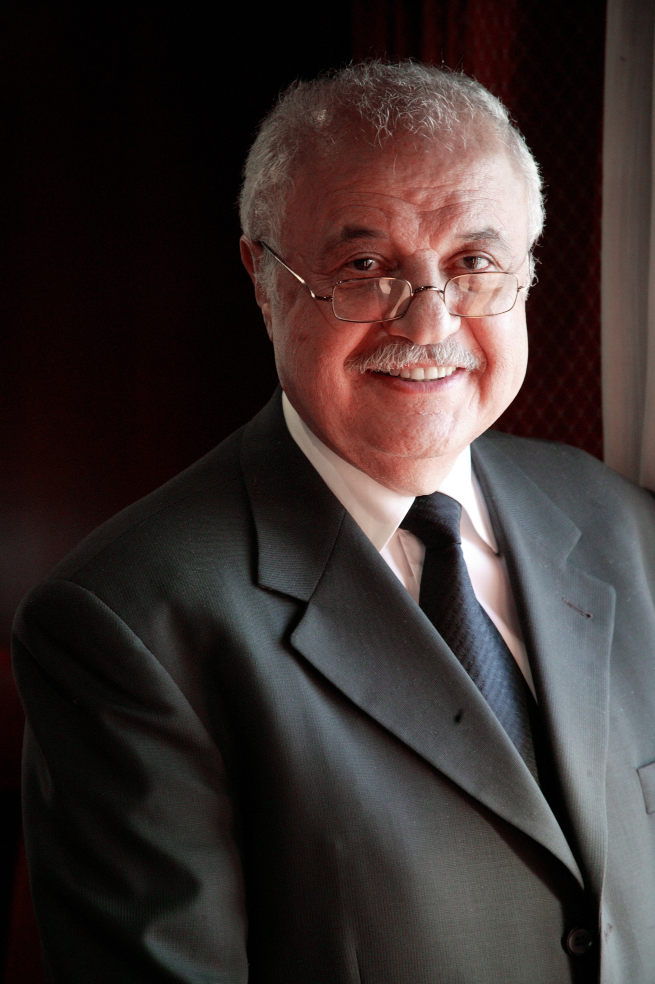 Mr. Talal Abu-Ghazaleh the chairman and founder of Talal Abu-Ghazaleh Group (TAGorg)